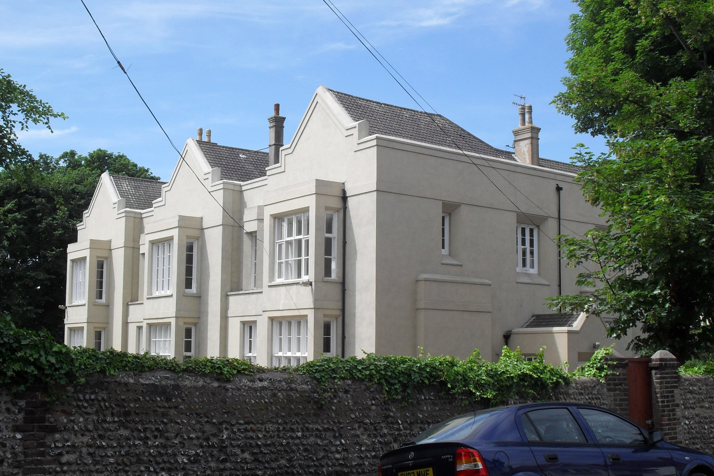 The Old Vicarage, Temple Gardens, Montpelier, City of Brighton and Hove, England. now the sixth form of Brighton and Hove High School.